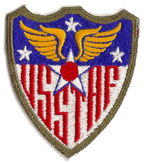 Emblem of the United States Strategic Air Forces - Europe - World War II Source: United States Air Force